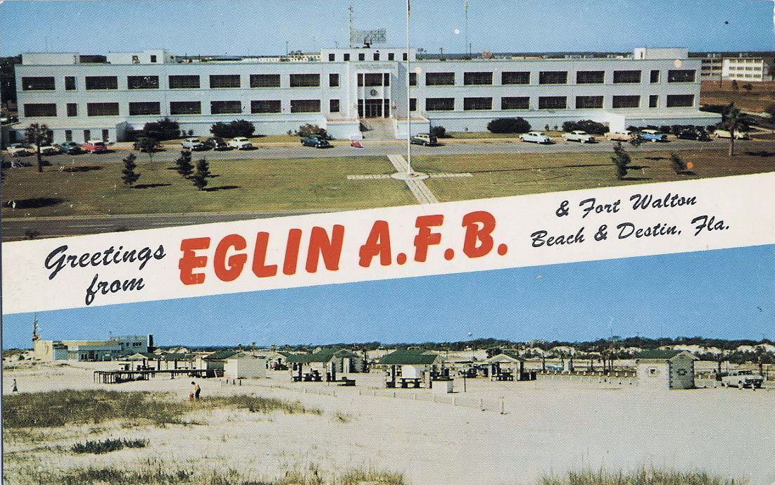 Eglin Air Force Base - Welcome Postcard